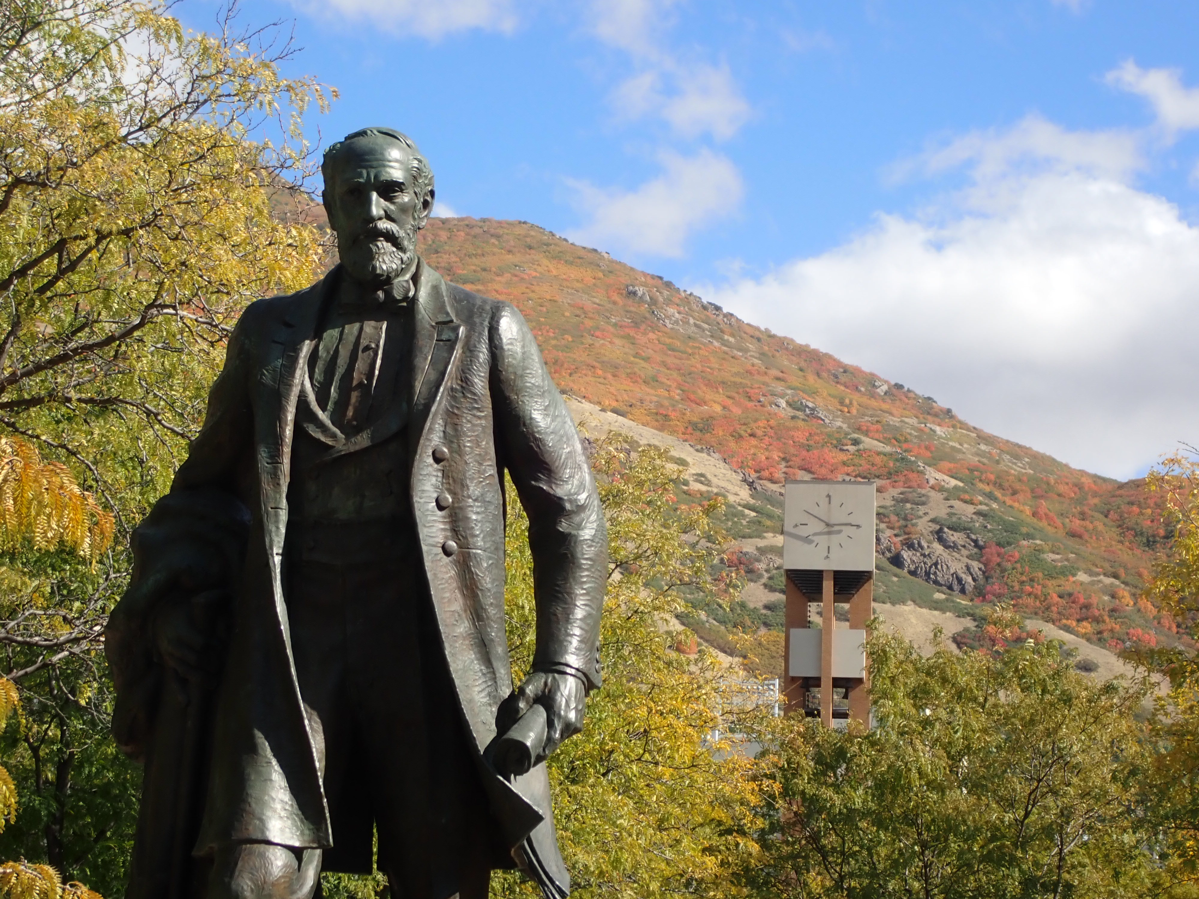 Bell Tower, Weber State University, Ogden, Utah, USA